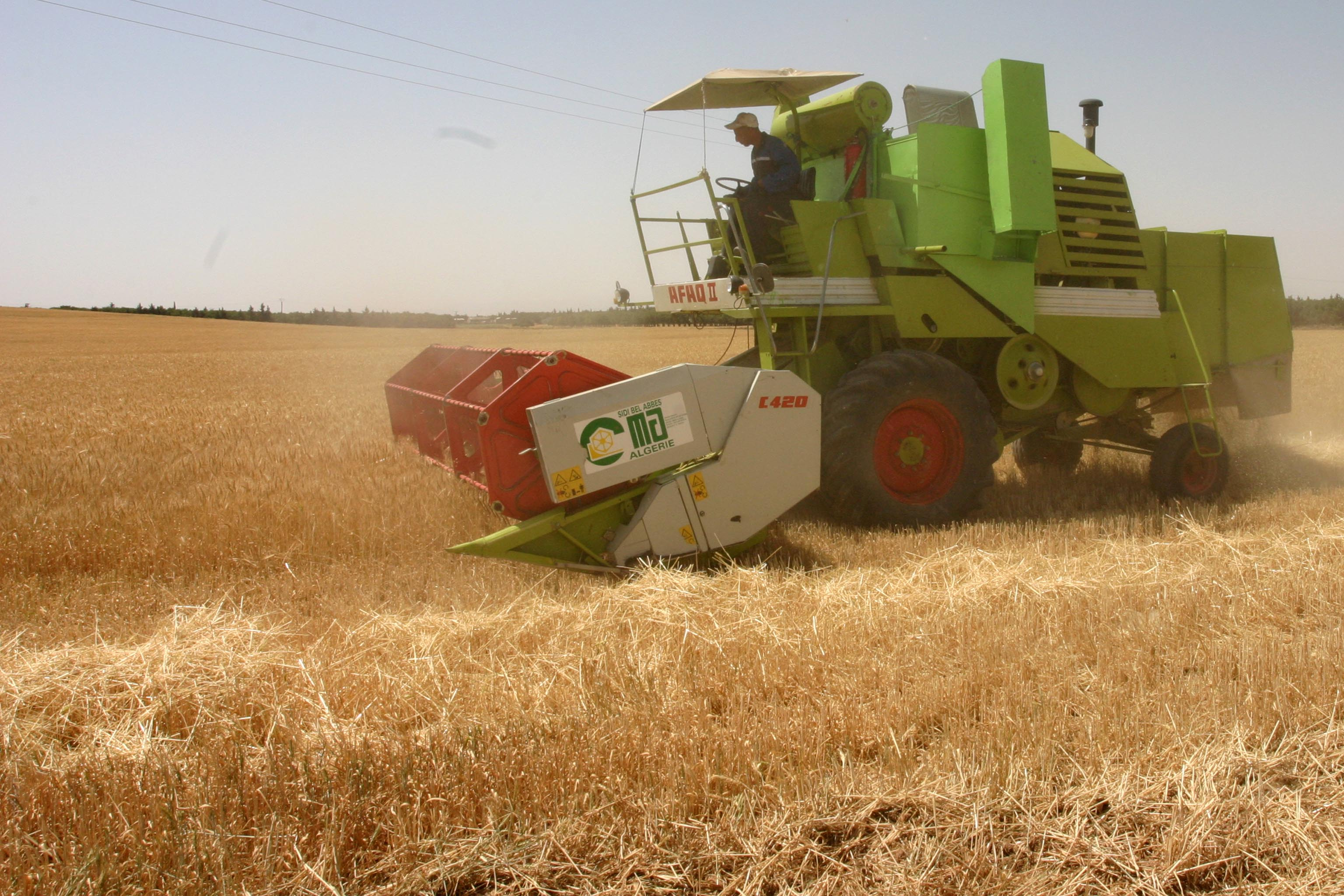 Cereal harvest in Algeria in 2011. A PMA AFAQ II (?) combine harvester with a C 420 header (4,20 m cutting width) – this combine was built in Algeria under license from Claas (a Claas Mercator model presumably, but unsure). [Mohand Ouali] Algeria is expected to harvest 4.5 million tonnes of cereal this year. تتوقع الجزائر حصد 4.5 مليون طن من الحبوب السنة الجارية Pour la première fois de son histoire, la fédération mauritanienne de football a organisé une élection libre de ses instances dirigeantes.